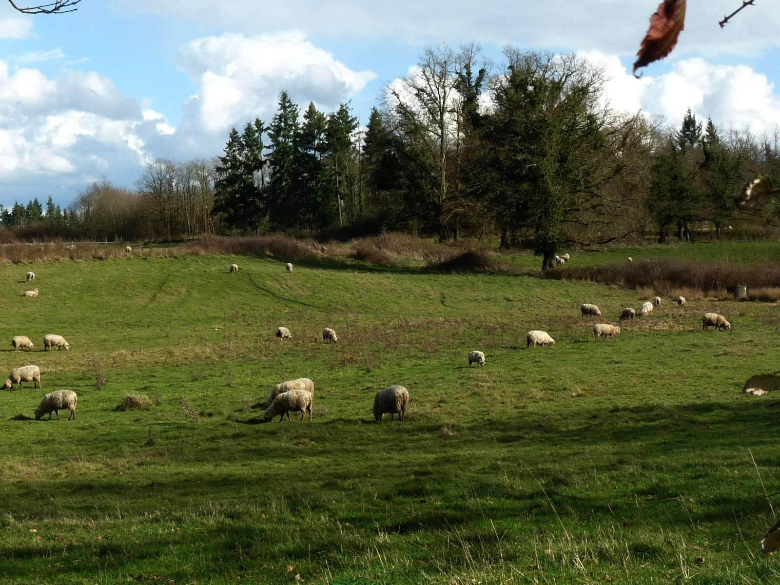 typical Limousin landscape